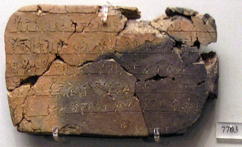 Clay tablet of Mycenae bearing an inscription in Linear B from the "House of sphinxes, thirteenth century a. C. The tablet belongs to a group of inscriptions dealing with agricultural production, and specifically mentioning herbs (cumin, coriander, fennel, sesame, and perhaps saffron) associated with male names (workers). National Archaeological Museum, Athens, No. 7703 (MY Ge 604).